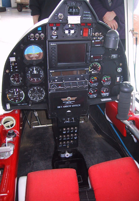 Sky Arrow 650 TCN Photo by Morgan Leigh. 2006.